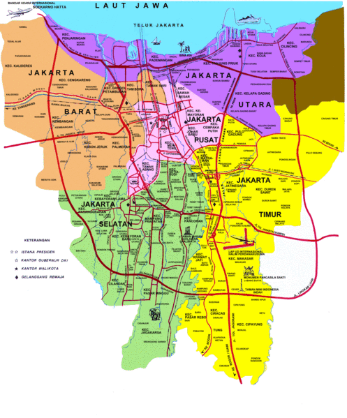 Районы Джакарты